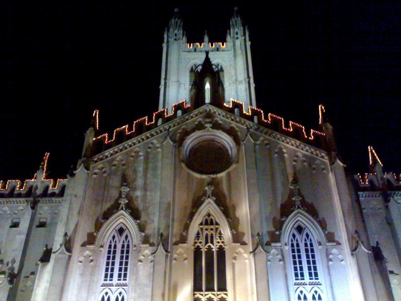 Saint Paul's Cathedral, Kolkata, West Bengal, India Christmas night shot